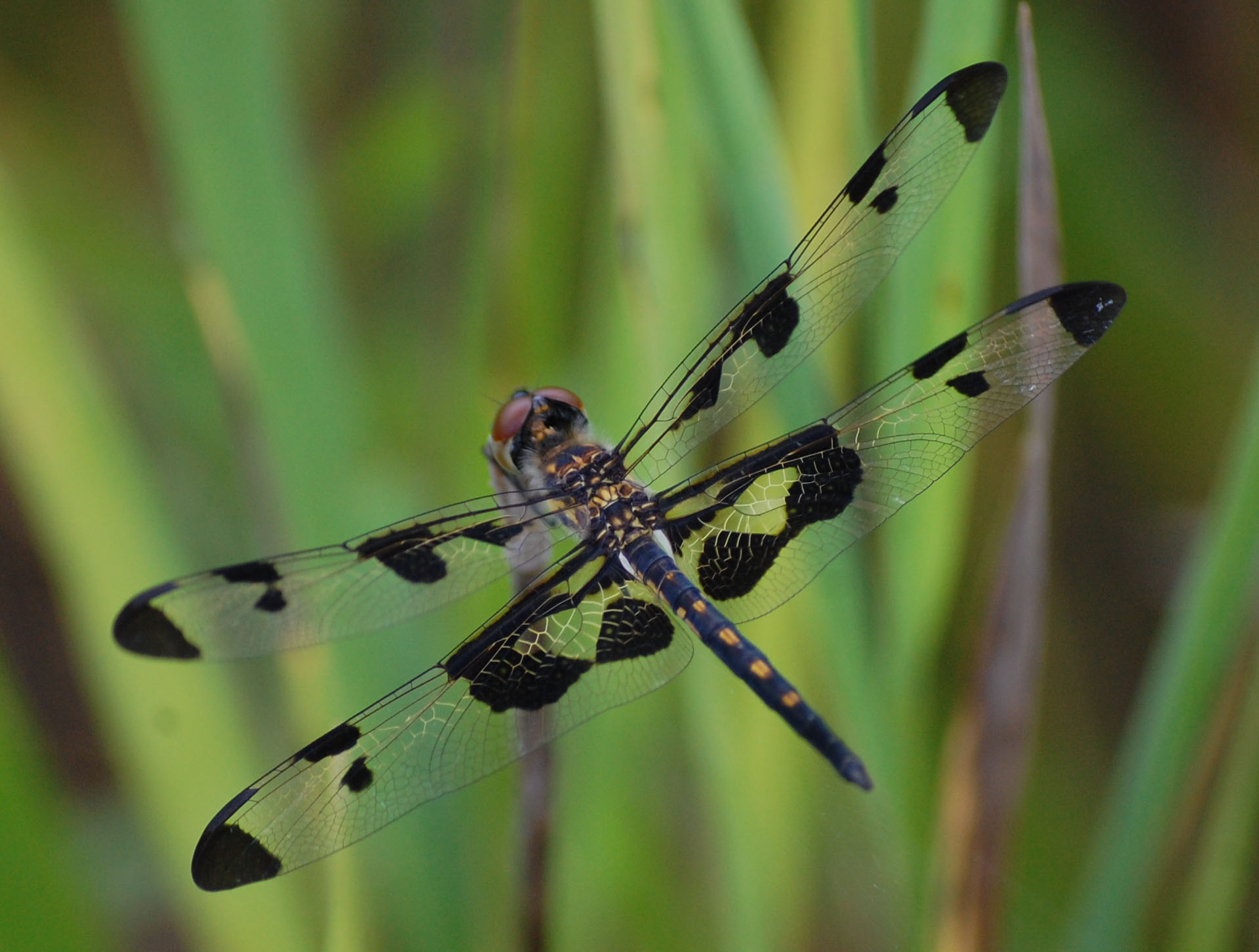 This photo was taken by M. Nazelrod, a volunteer Wayne PhotoNaturalist. It was taken at the Peabody Reclamation area on the Athens Ranger District.